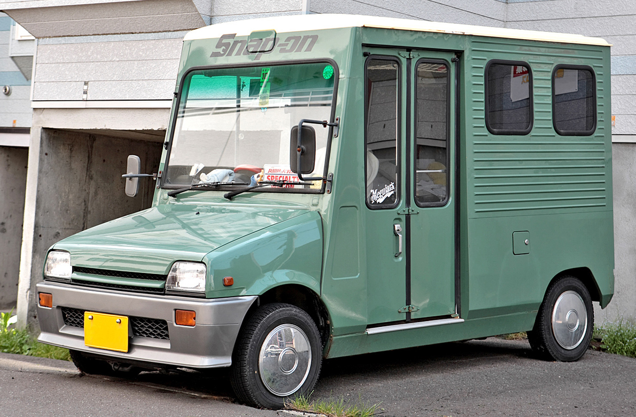 Walk-through Van of the second generation Daihatsu Mira.